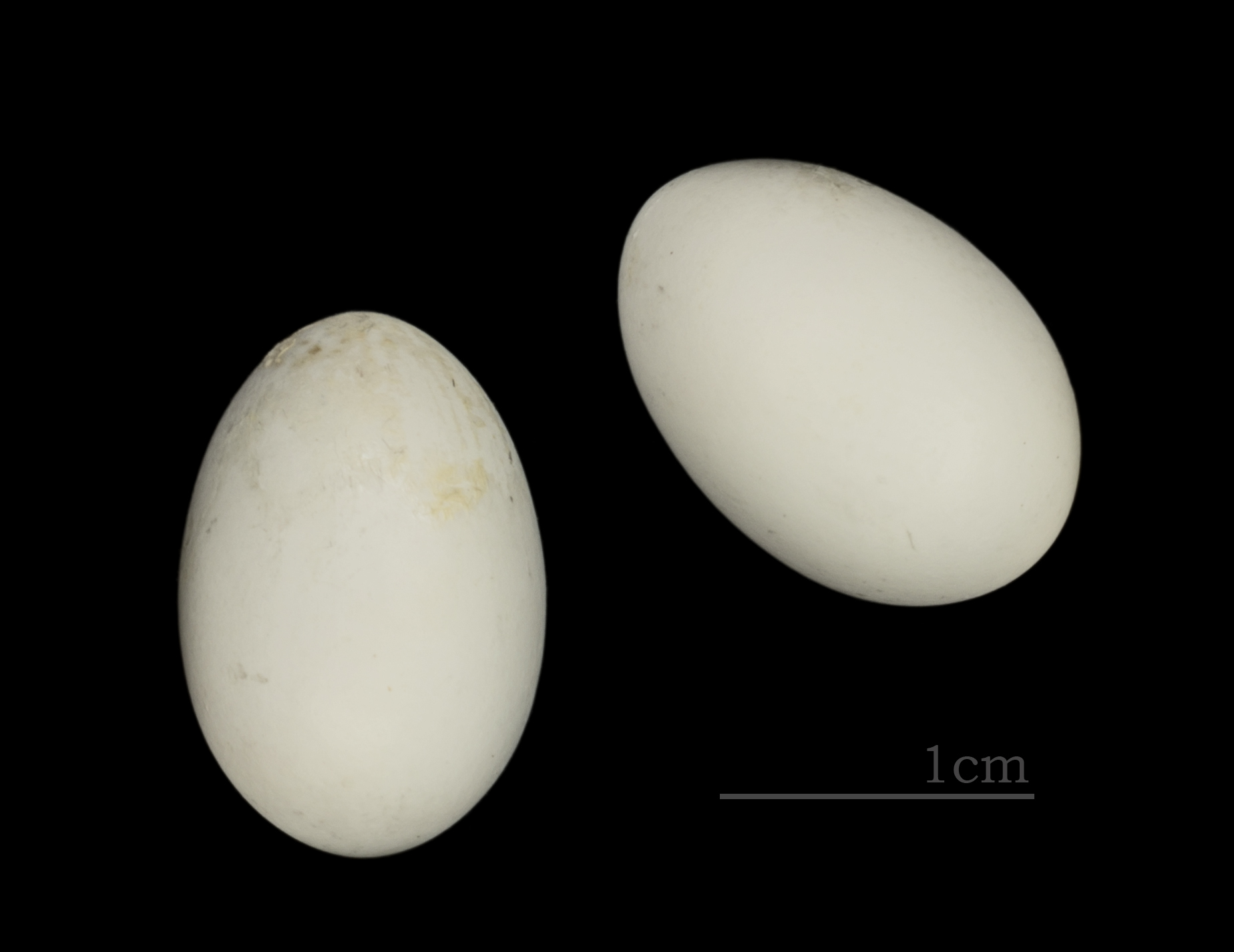 Egg of African palm swift. Collection of René de Naurois/Jacques Perrin de Brichambaut.